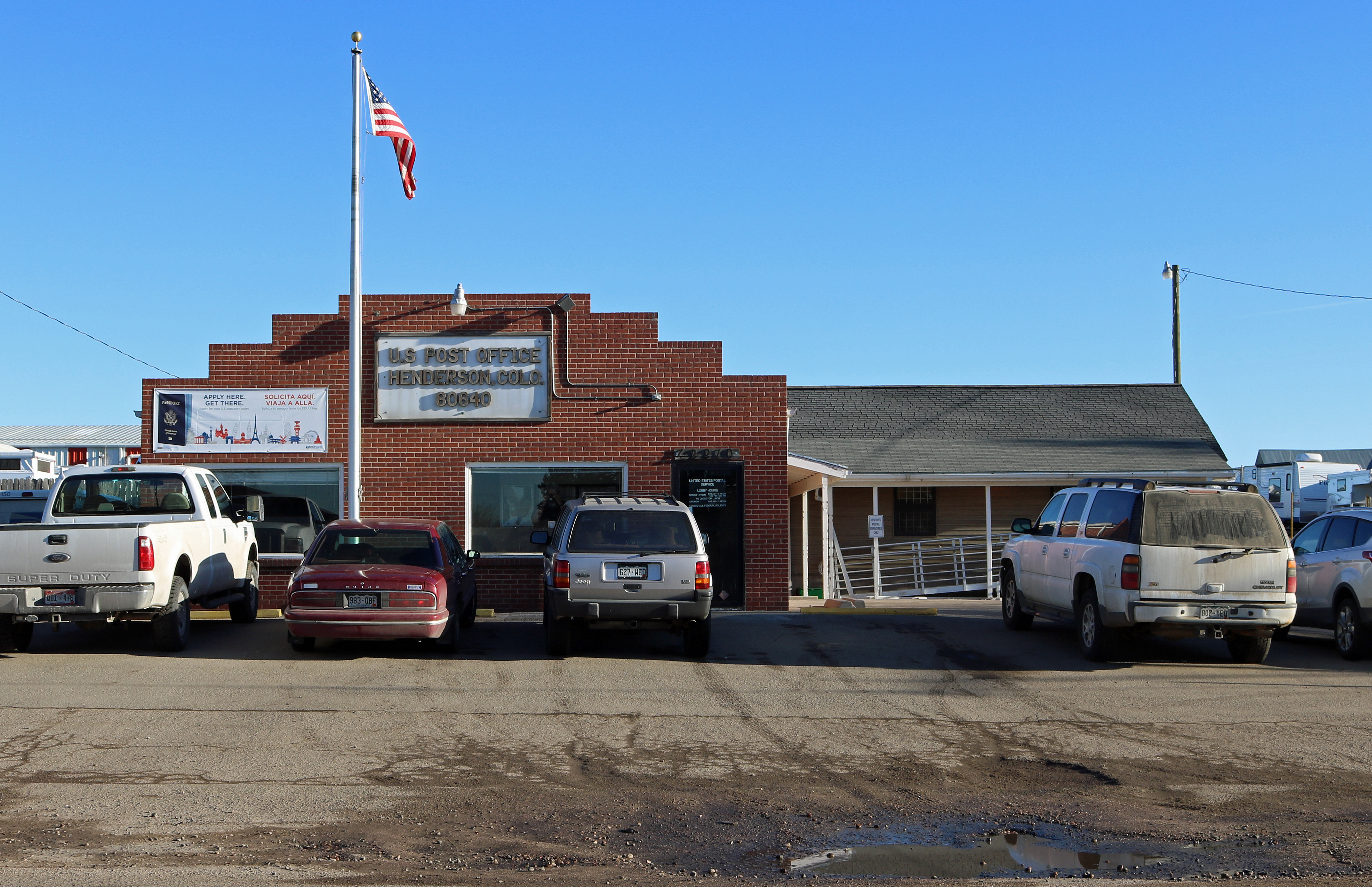 The post office in Henderson, Colorado. It is located at 12210 Brighton Road, Henderson, Colorado.